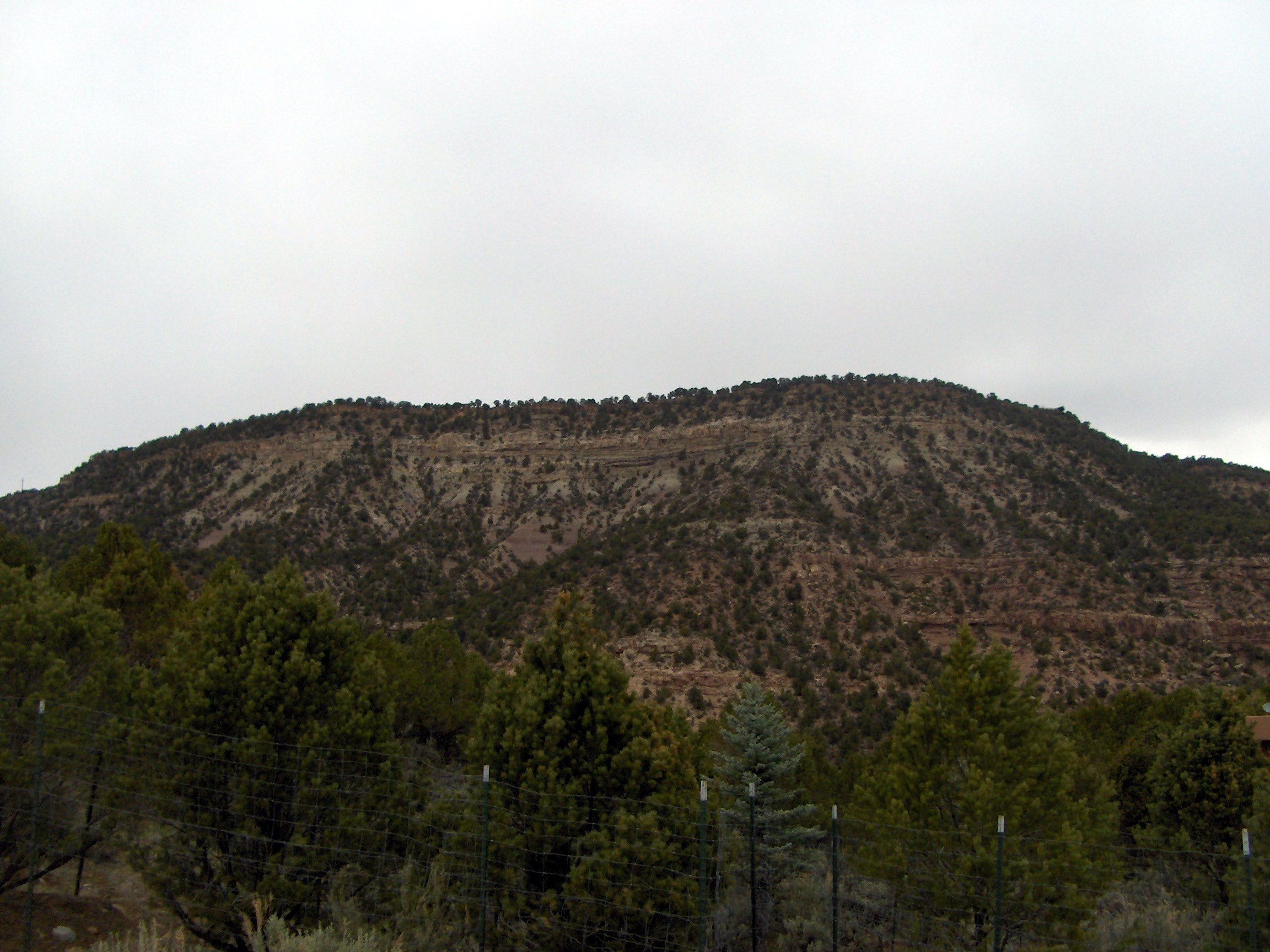 View of Log Hill Escarpment and Loghill Village from Ridgway, Colorado